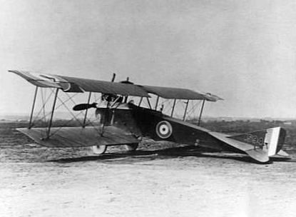 A captured German LVG C.II aircraft (serial 1594/16?).